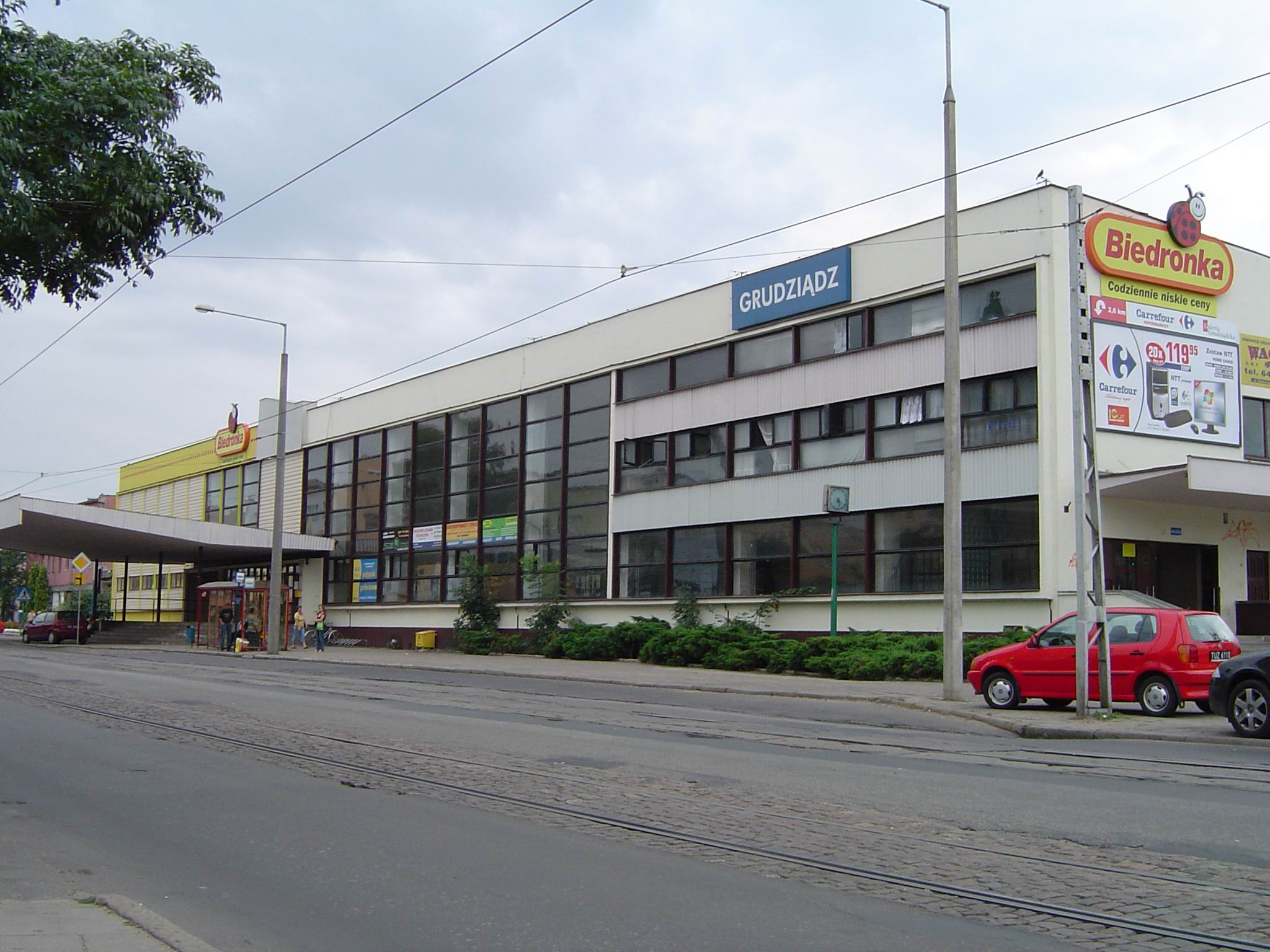 Train station in Grudziądz